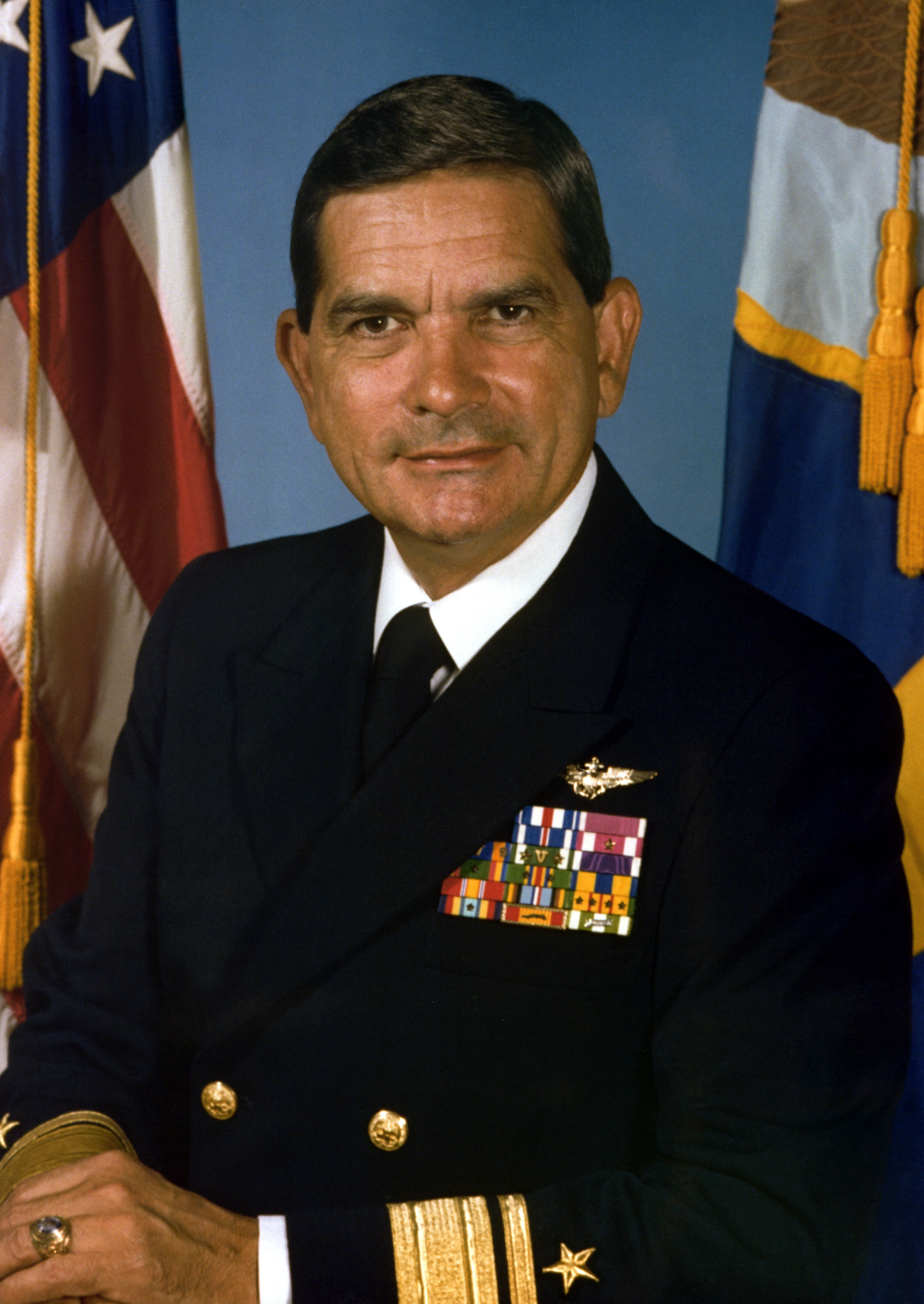 Rear Adm. Diego E. Hernandez